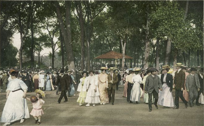 Band Concert, Lincoln Park, Chicago, Illinois, c. 1907